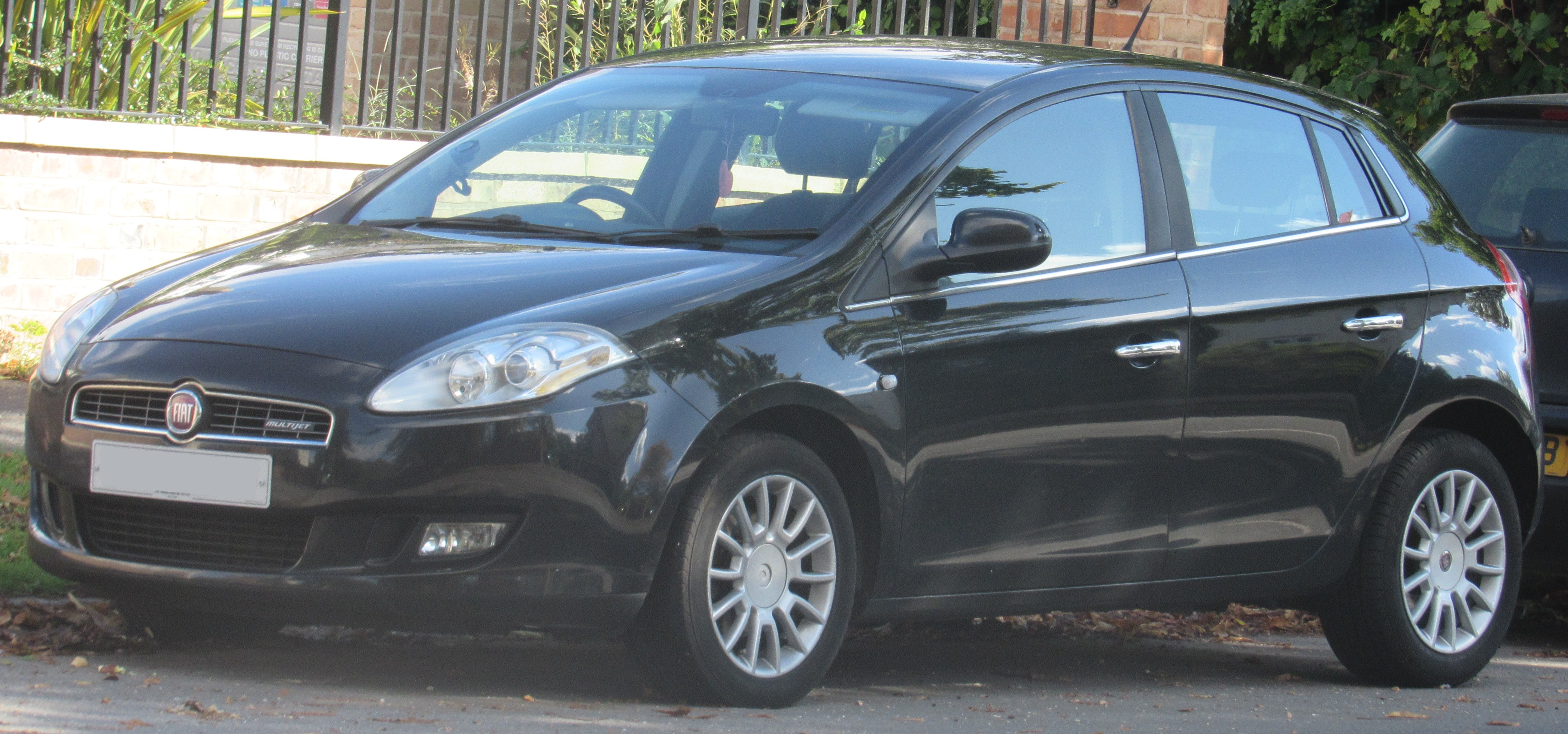 2008 Fiat Bravo Dynamic M-Jet 120 2.0 Taken in Leamington Spa